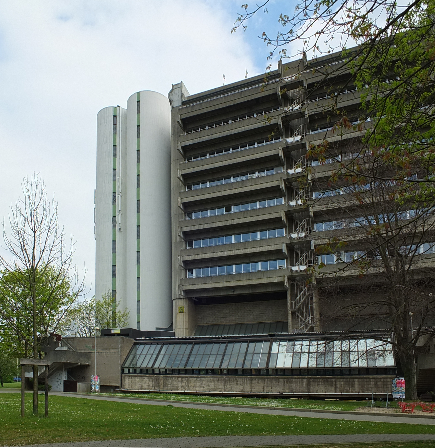 Vrije Universiteit Brussel, campus Pleinlaan, building G, faculty of sciences